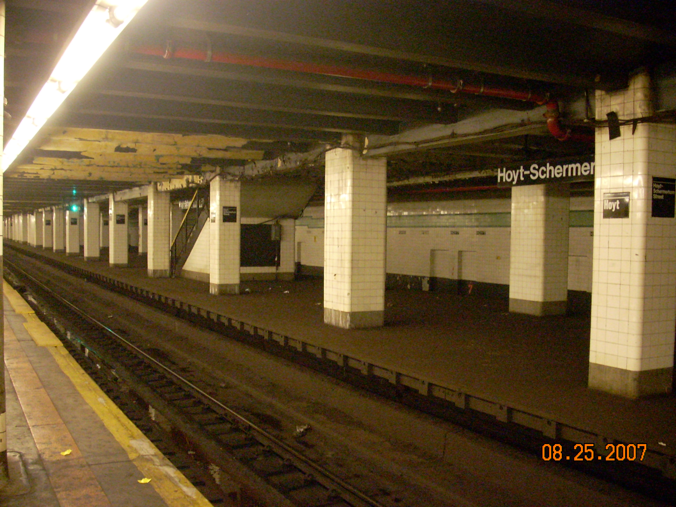 Abandoned Shuttle platform at Hoyt-Schermerhorn Street